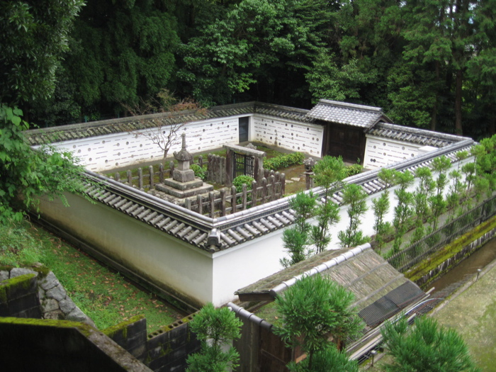 Tomb of Emperor Go-Mizunoo (rear view from above). Taken in Kyoto, July 5, 2007.